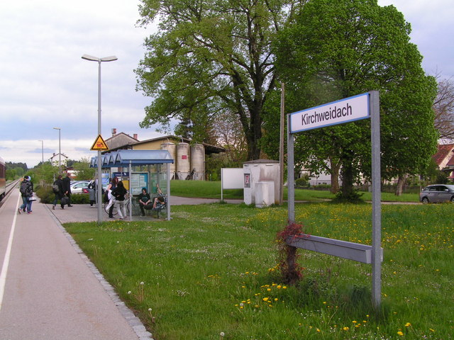 Kirchweidach, 16 km from Alt?ng